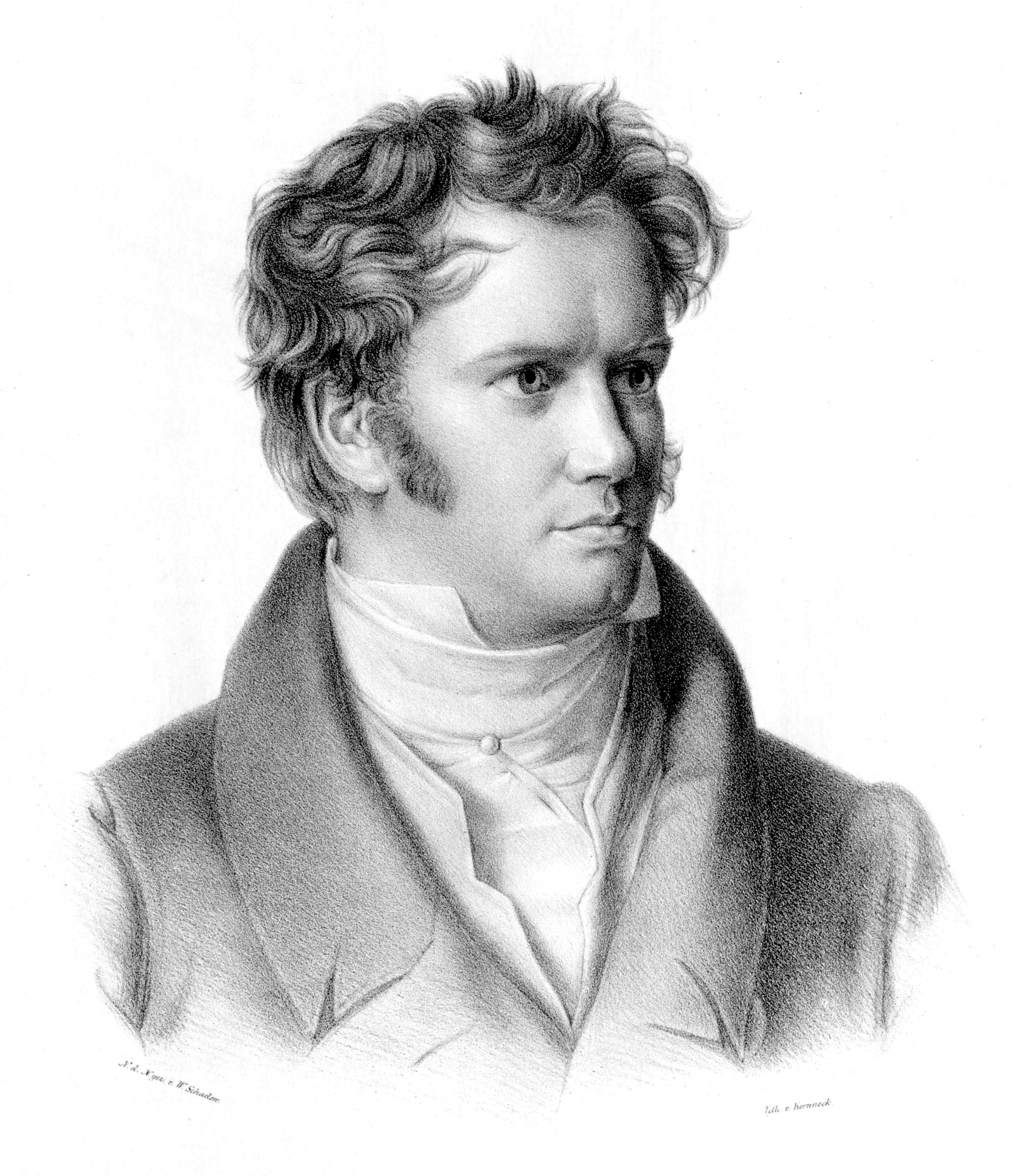 Depicted person: Bernhard Klein